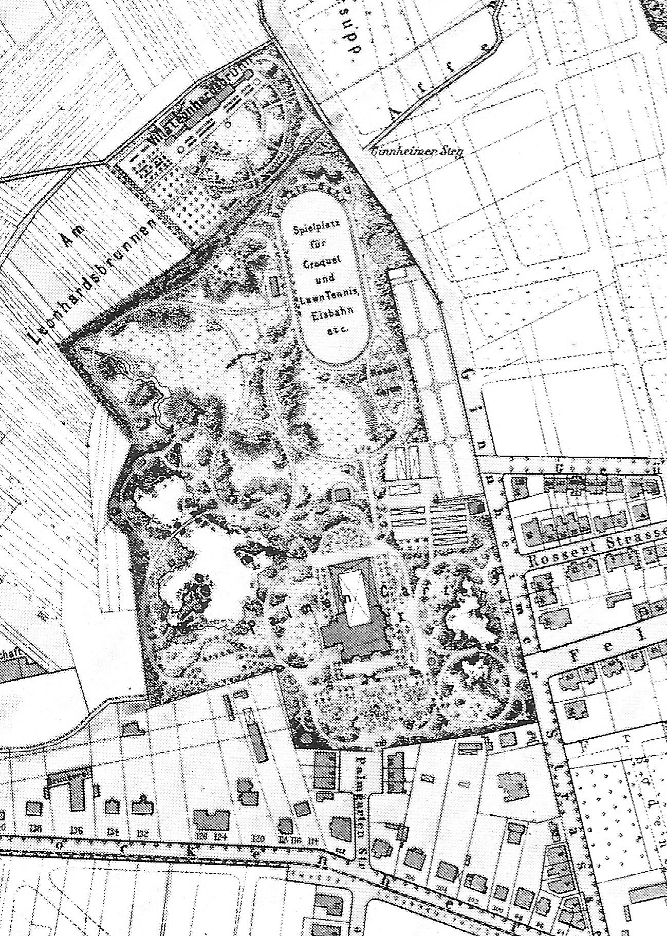 Frankfurt/M., Germany: Map of the Palmengarten on Bockenheimer Landstraße in the Westend. Detail of a town map created in 1887